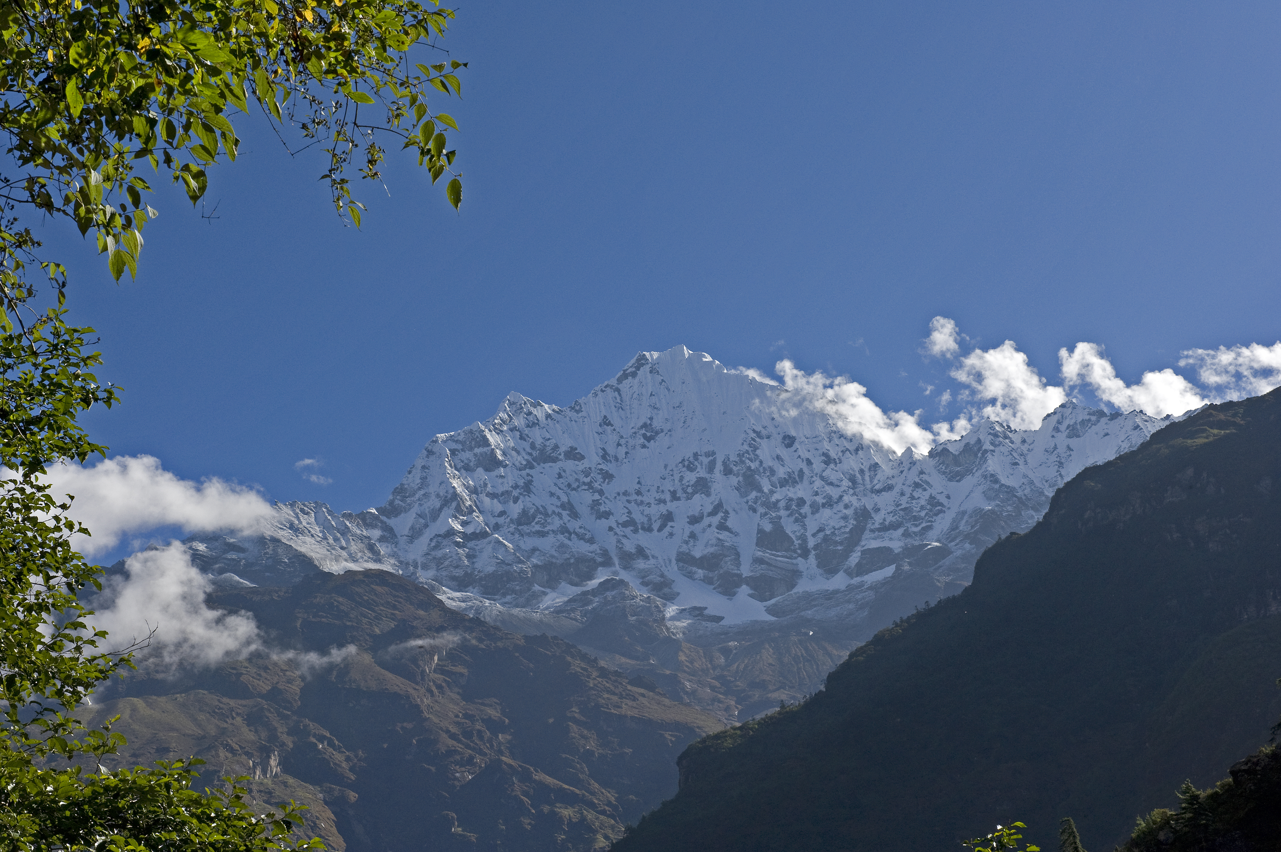 Kusum Kanguru SE face